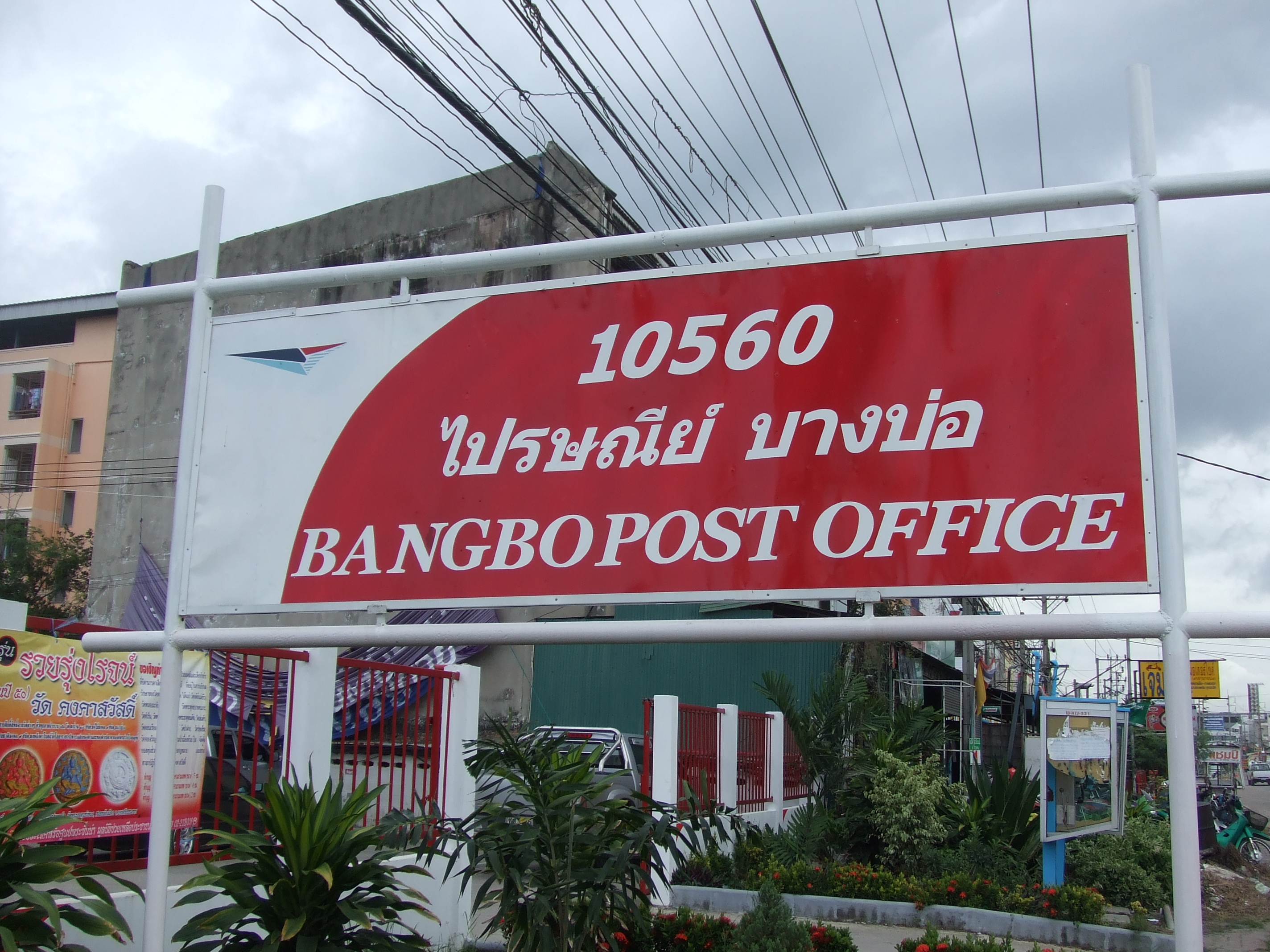 Bangbo post office